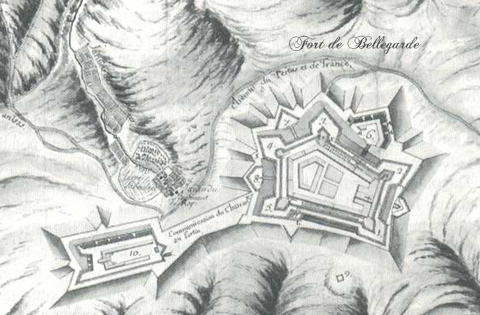 Plan of Fort Bellegarde in southern France